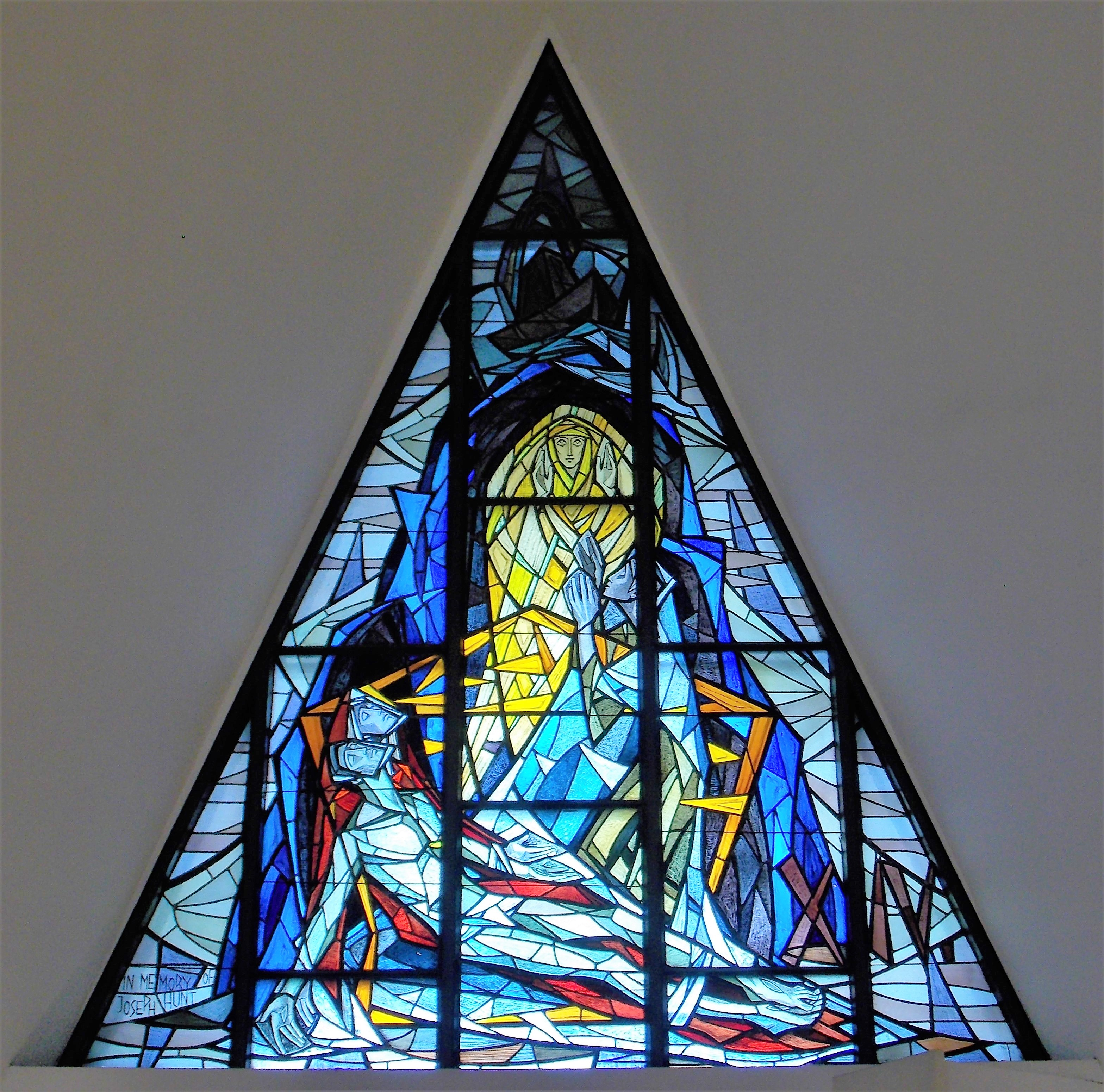 The stained glass windows on the nave of Guardian Angel Cathedral in Las Vegas double as the Stations of the Cross. Station 14 is pictured here.